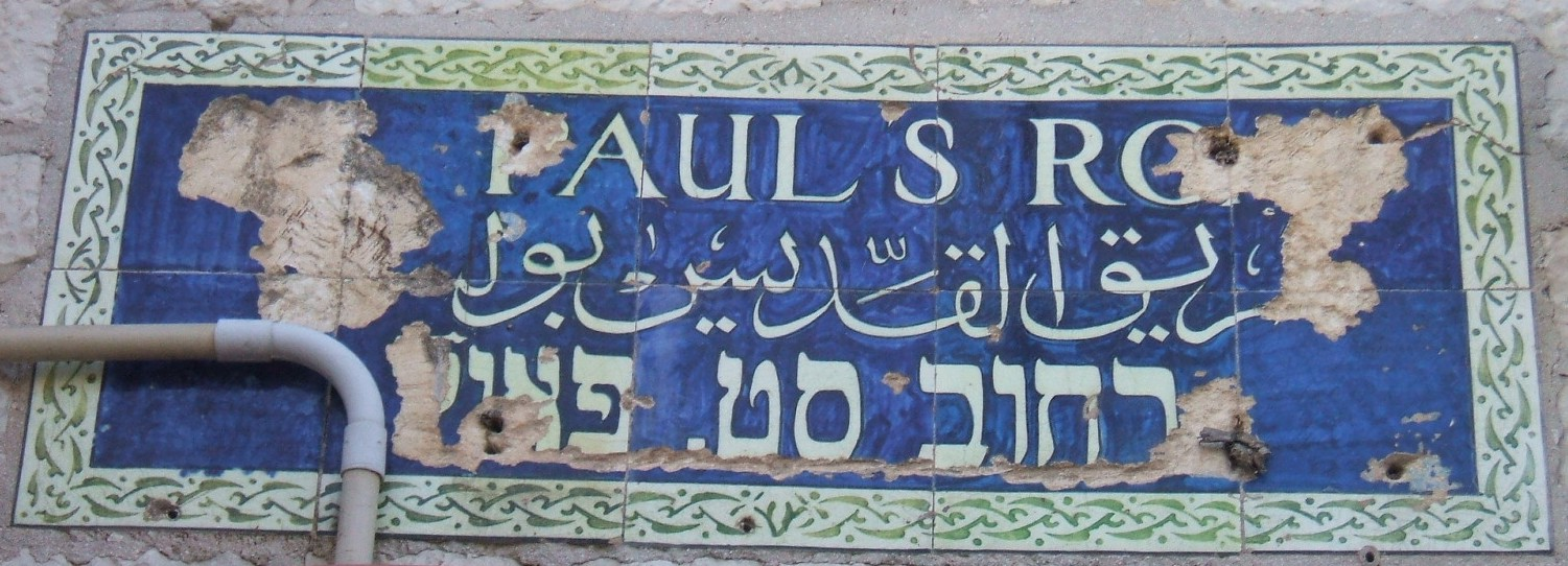 St. Paul street (now: Shivtei Israel) in Jerusalem